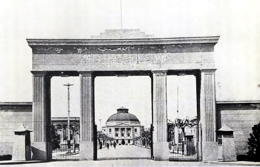 South Gate of National Central University, Nanjing, 1930s.